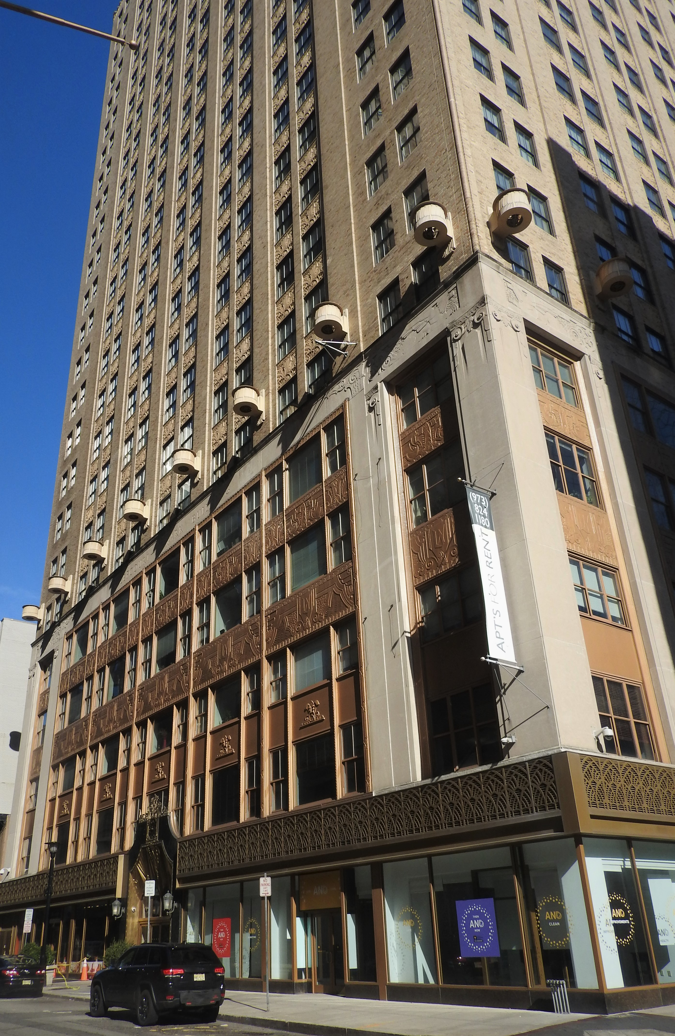 Looking north across Commerce Street on a sunny midday